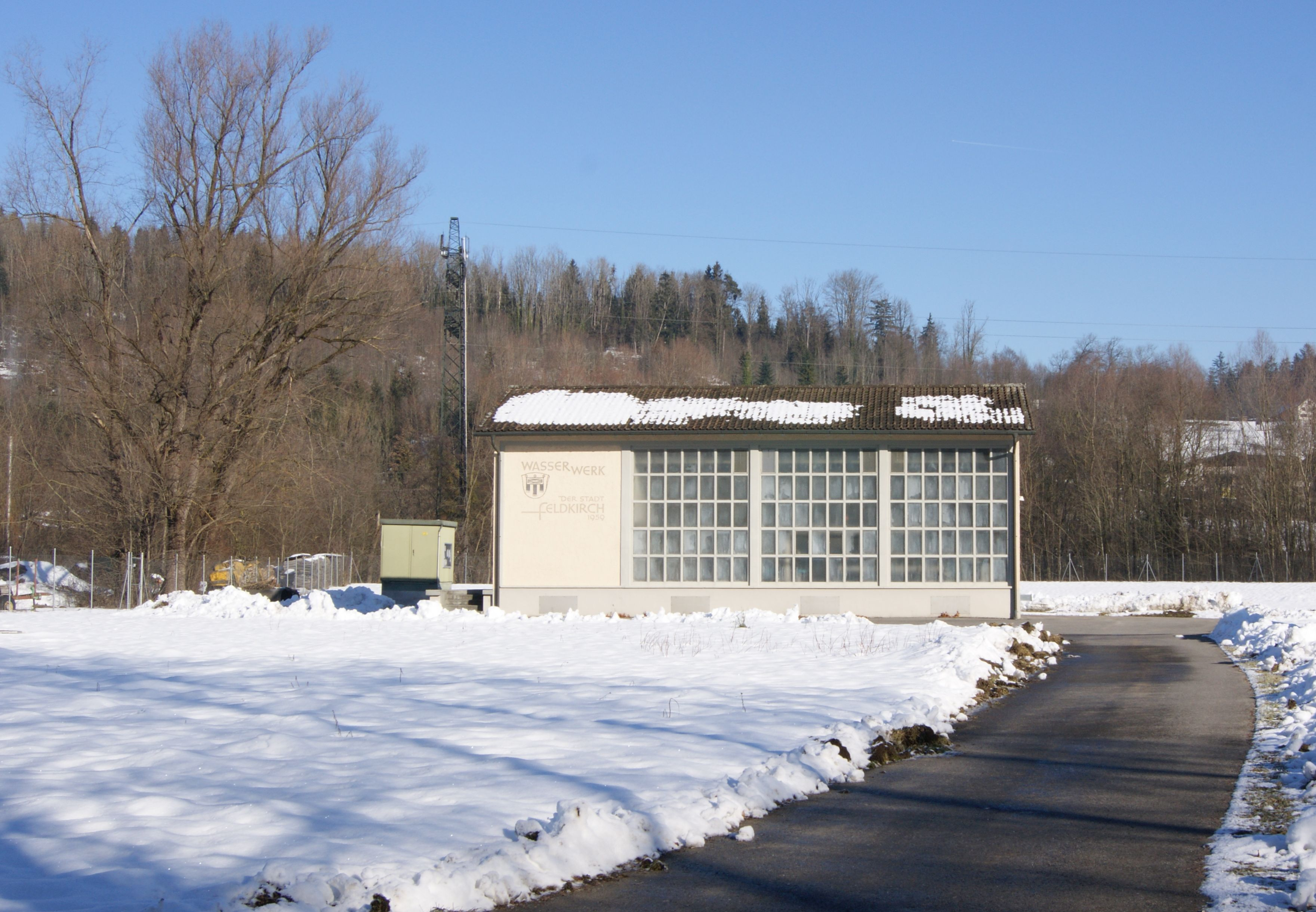 Vertical wells in Frastanz in Vorarlberg, Austria. Built in 1952/1953, in operation to supply the city of Feldkirch.